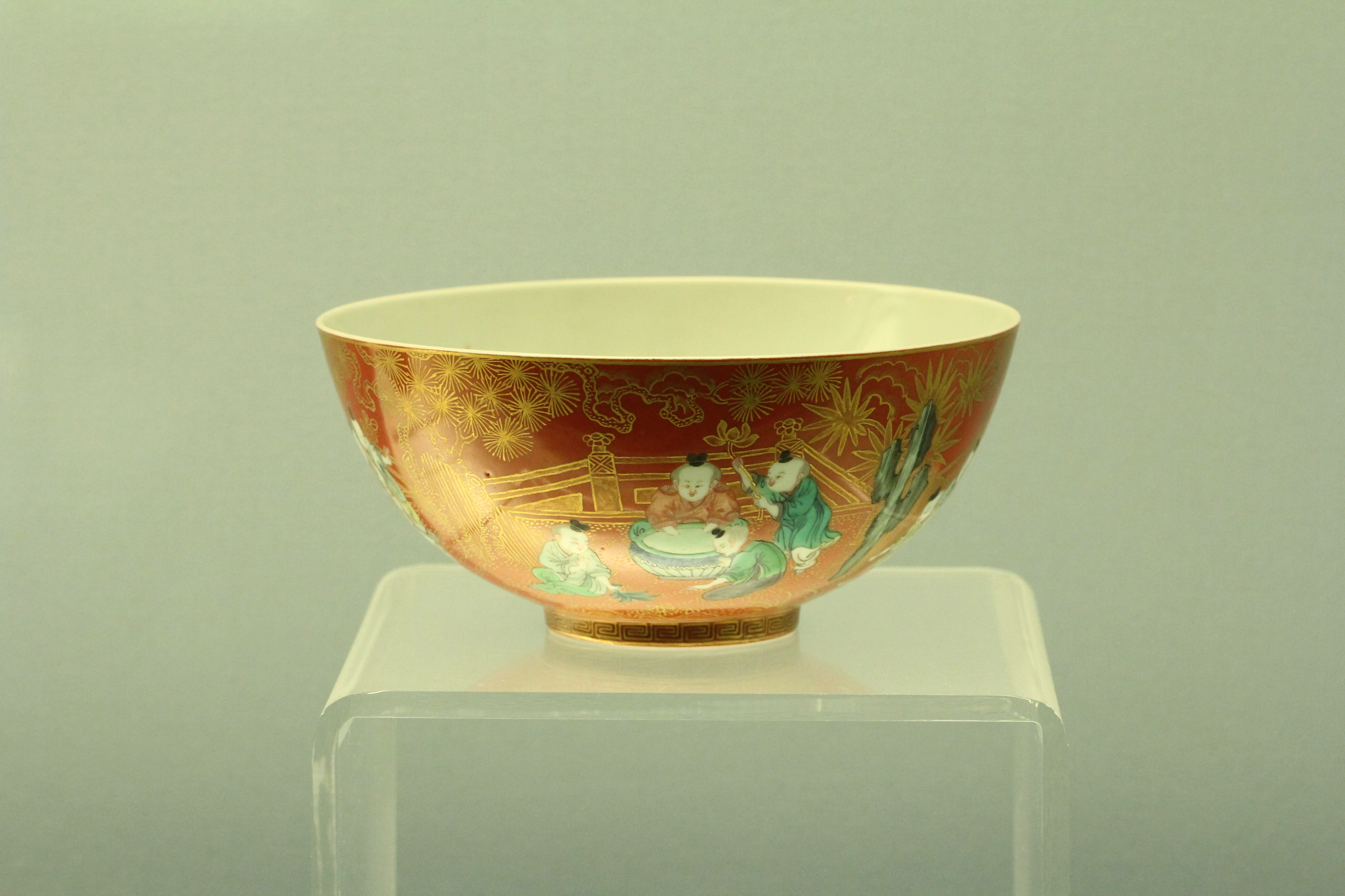 Bowl with Wucai and gold traced design of children playing on coral-red ground. Jingdezhen Ware. Jiaqing Reign (A.D. 1796-1820), Qing.